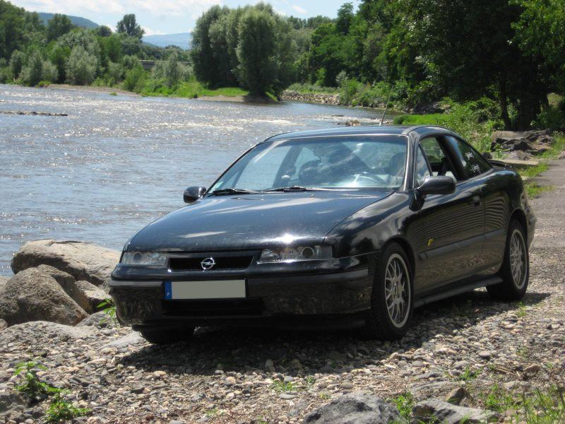 calibra team